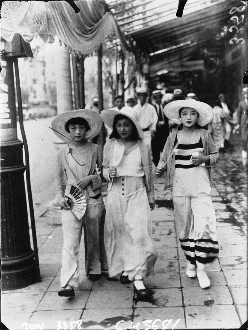 Young moga (modern girls) walk down a Ginza street in 1928 dressed in 'Beach Pyjama Style.'